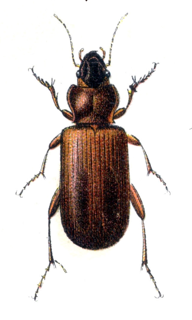 Trechus micros Hrbst. = Trechoblemus micros (Herbst, 1784)